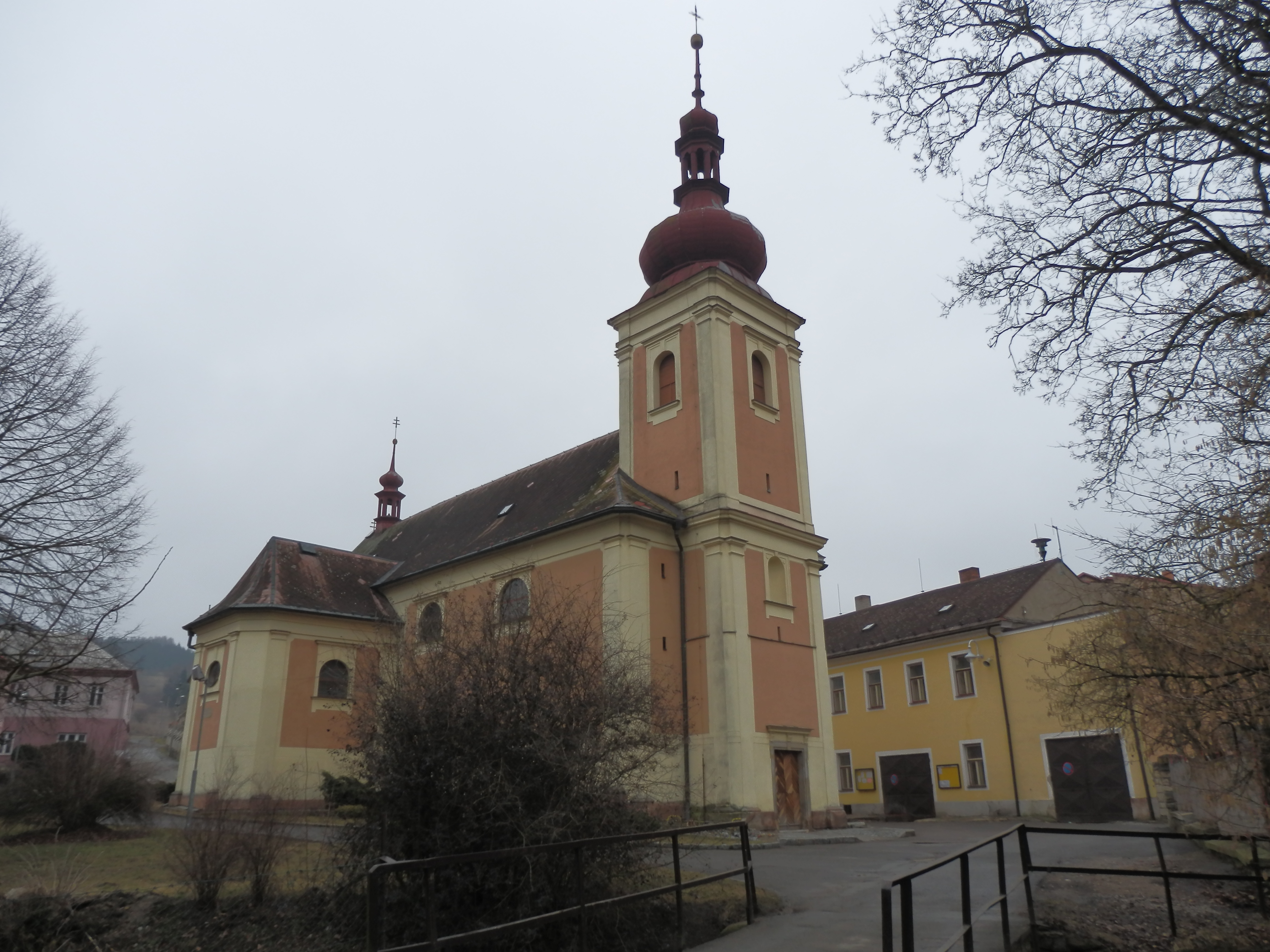 Březová nad Svitavou, Svitavy District, Czech Republic.